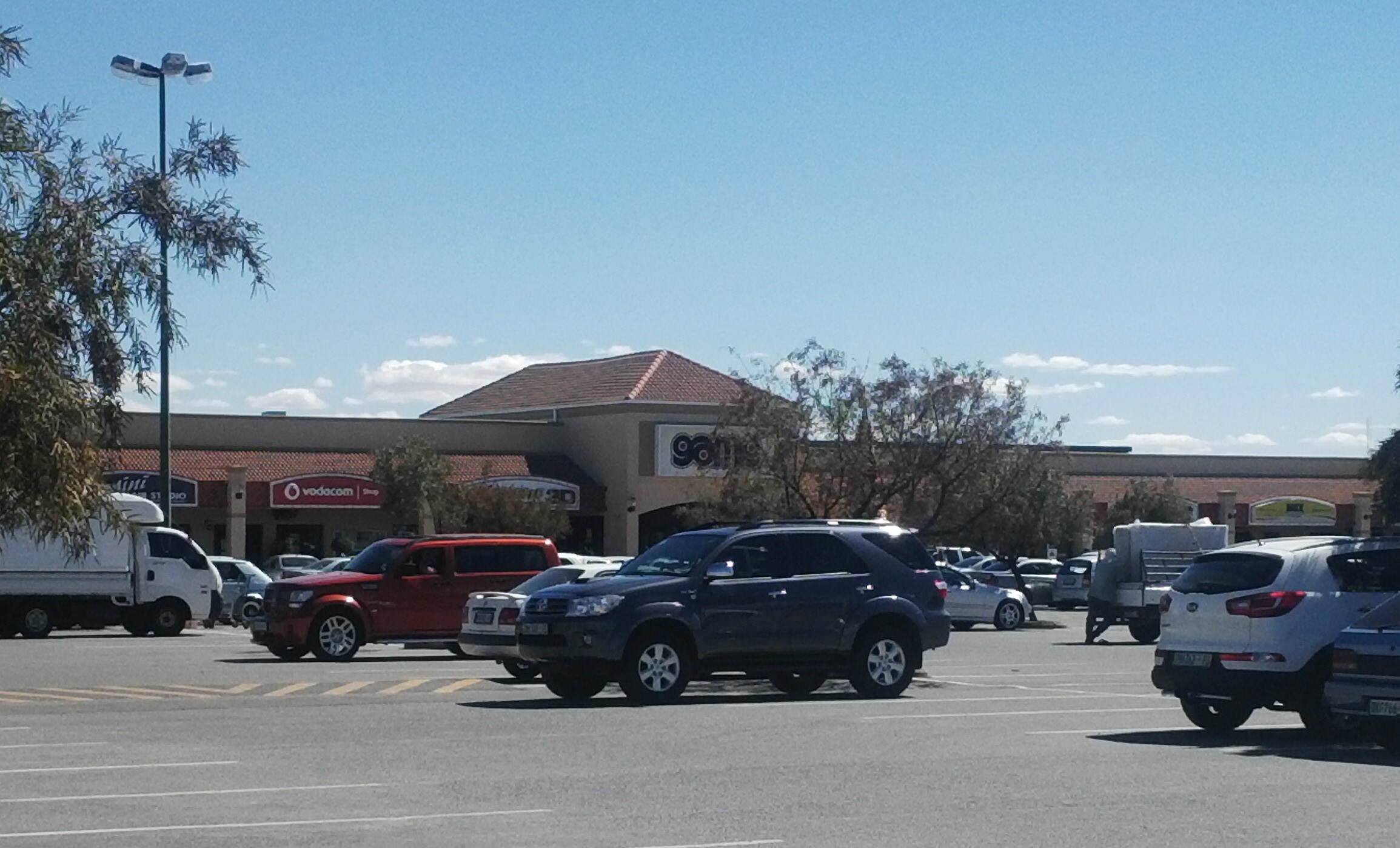 Welkom Square in Long road.jpg Other information Nil